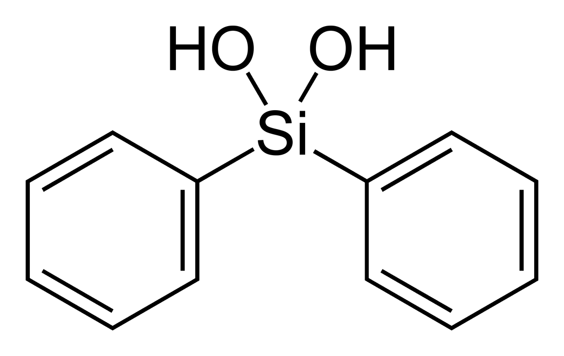 Skeletal formula of the diphenylsilanediol molecule, Ph2Si(OH)2. Structure given in, CRC Handbook, 88th edition and Can. J. Chem. 55(20): 3631–3635 (1977).